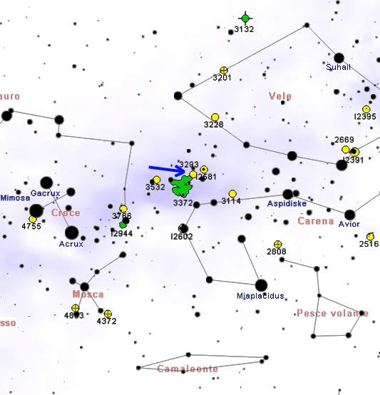 NGC 3293